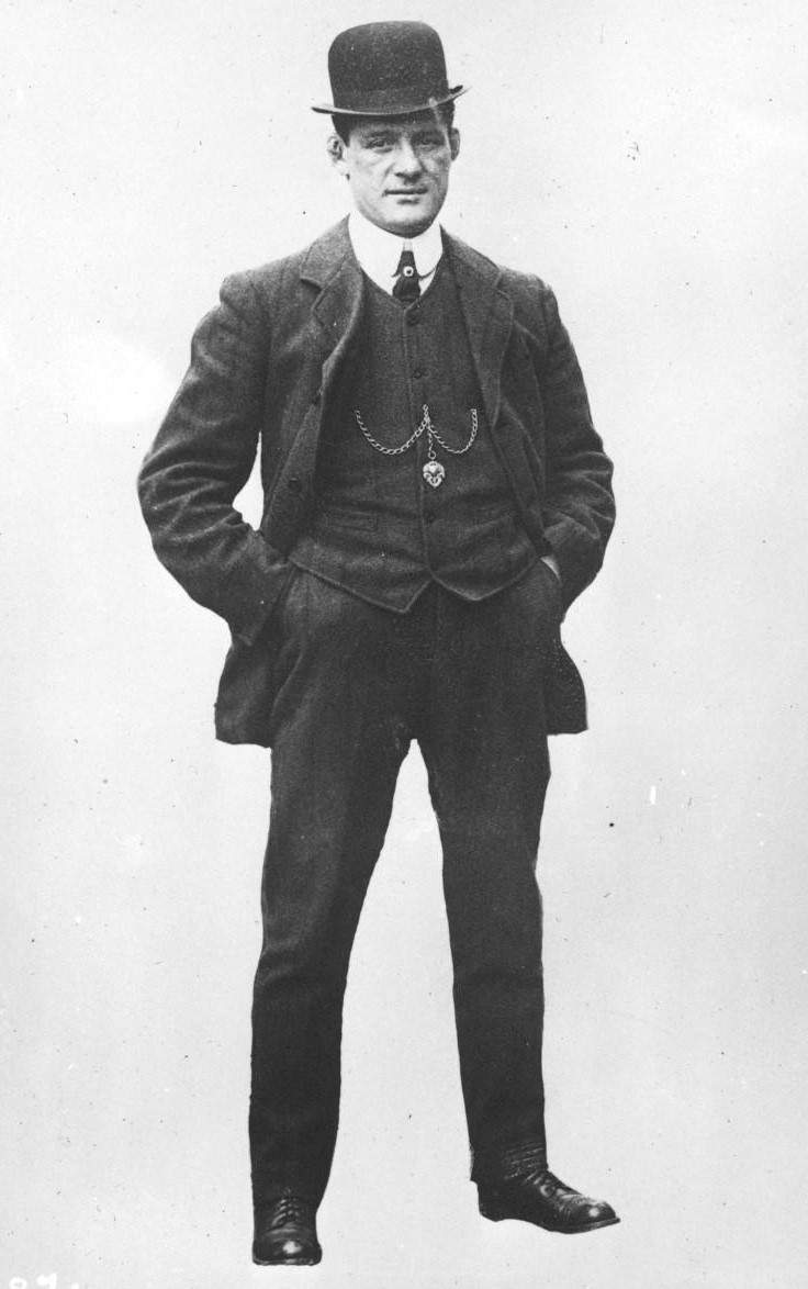 Jim Driscoll, portrait of boxer [press photograph]